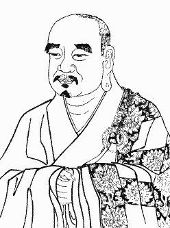 The 8th century Zen monk Nanyang Huizhong (南陽慧忠)